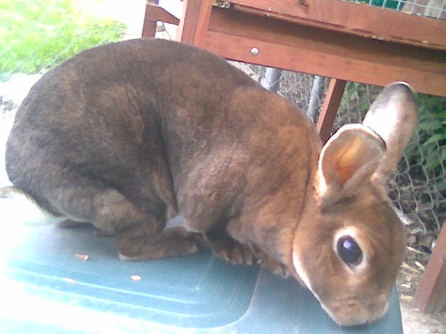 This is a picture I took of my pet rabbit.